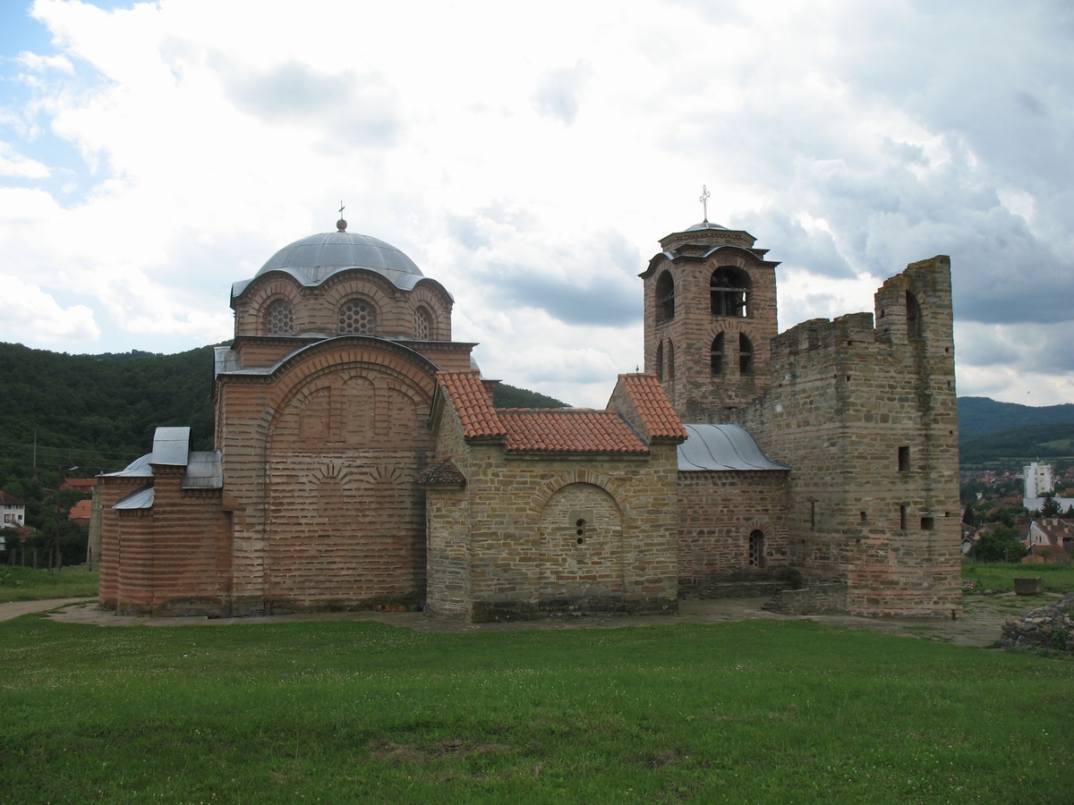 Saint Nicolas monastery, from middle of XII century, in Kuršumlija, Serbia.